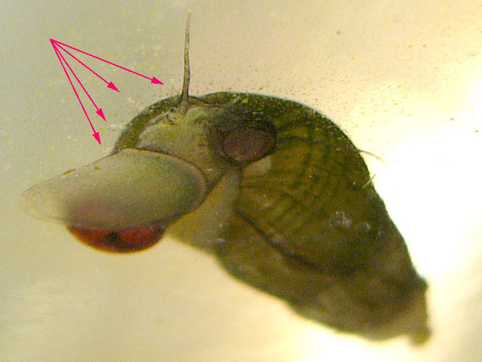 Melanoides tuberculatus. Arrows are pointing to the pallial tentacles for breathing.